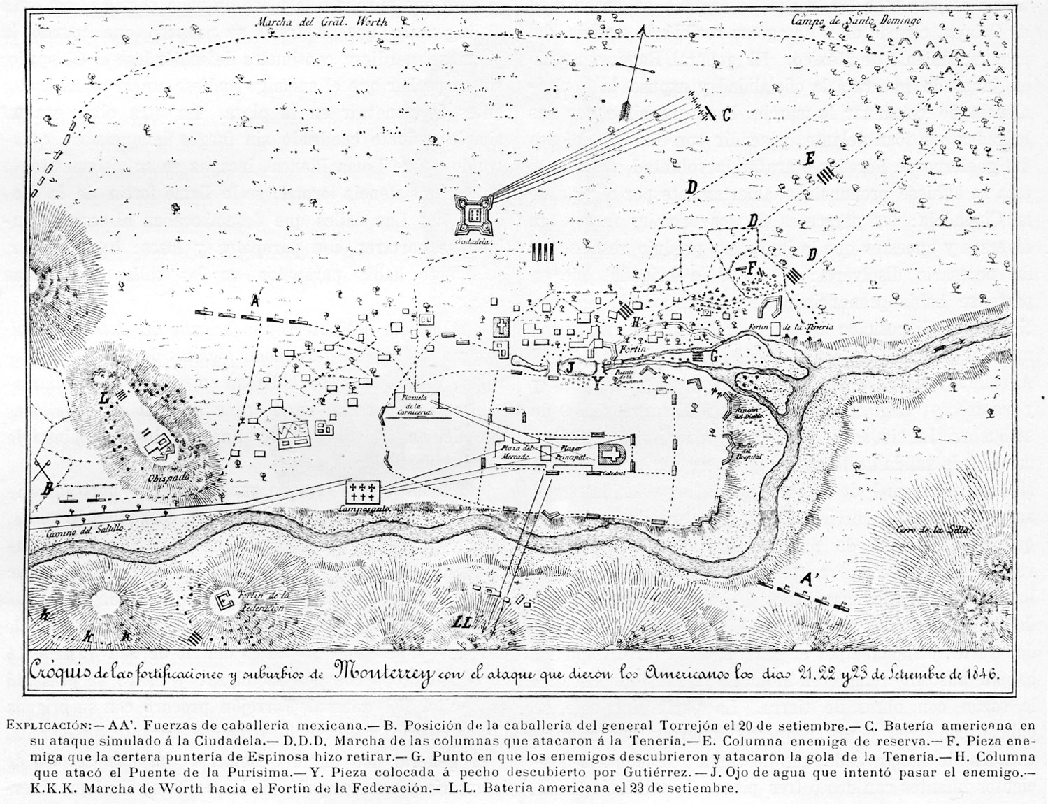 Map of the fort in Monterrey, Mexico and the American attack in September 1846.